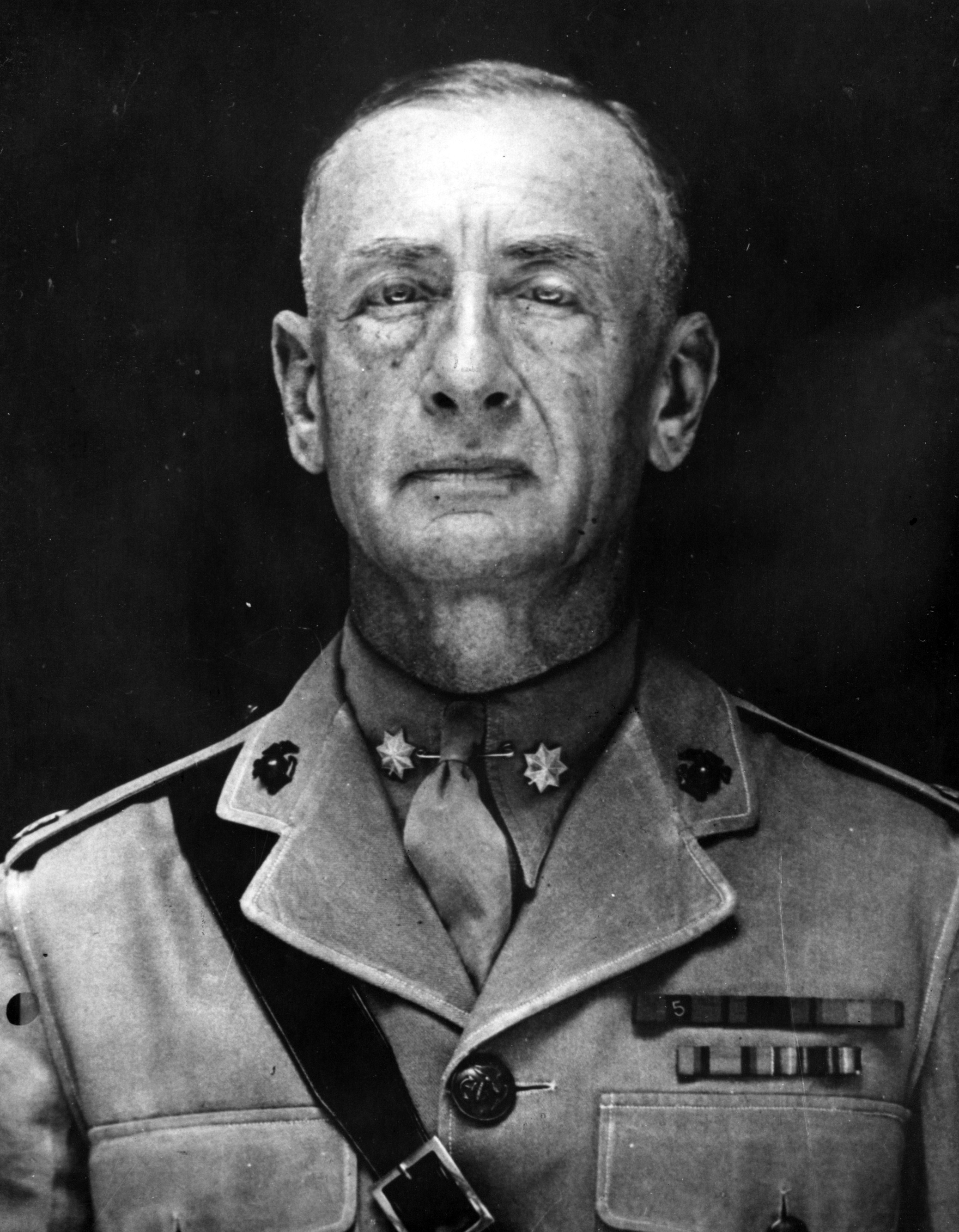 Emile Phillips Moses (May 27, 1880 - December 22, 1965) was a distinguished officer in the United States Marine Corps with the rank of Major General. A veteran of forty years of service and several expeditionary campaigns, Moses is most noted for his service as Commanding general, Marine Corps Recruit Depot Parris Island during World War II and for his efforts in the developing of Marine Corps Amphibious Warfare doctrine, especialy Landing Vehicle Tracked. Here shown as lieutenant colonel, USMC.